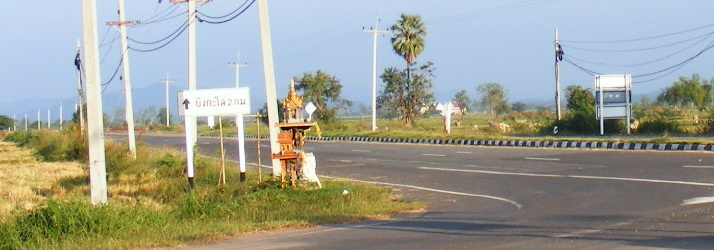 Thai Highway 11 Location: Mueang Uttaradit, Uttaradit Province, Thailand.